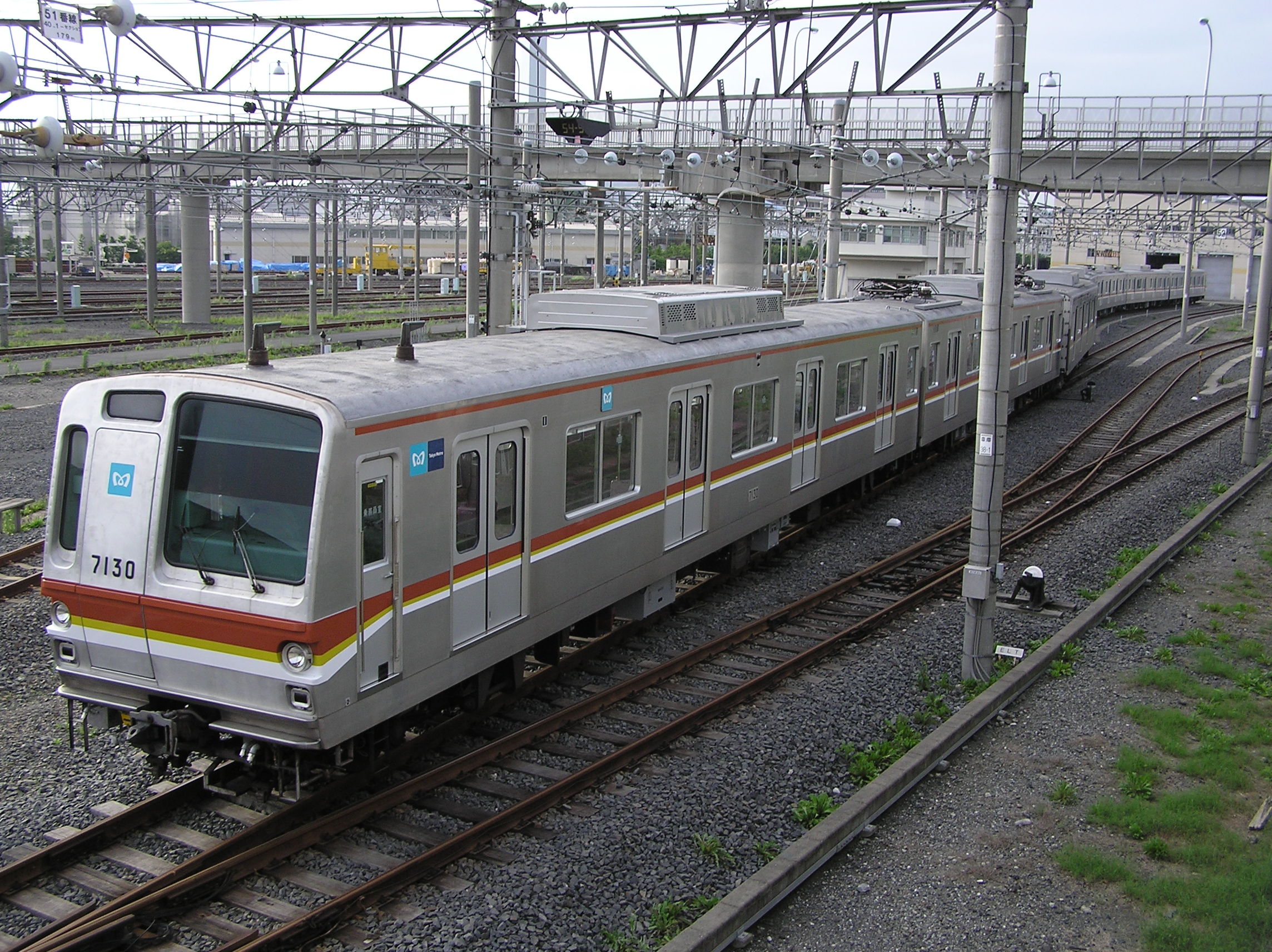 撮影地Place of photo新木場検車区撮影の状況How to take公道から撮影At public roadトリミングの有無Cropped or not非トリミングNot Cropped内容Description東京地下鉄7000系7130F8両編成化後Tōkyō Metro 7000 series 8-cars set